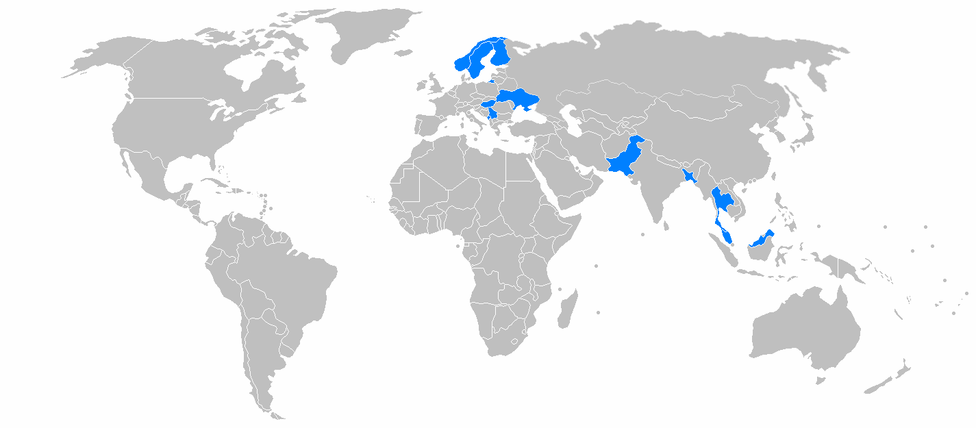 Telenor world locations